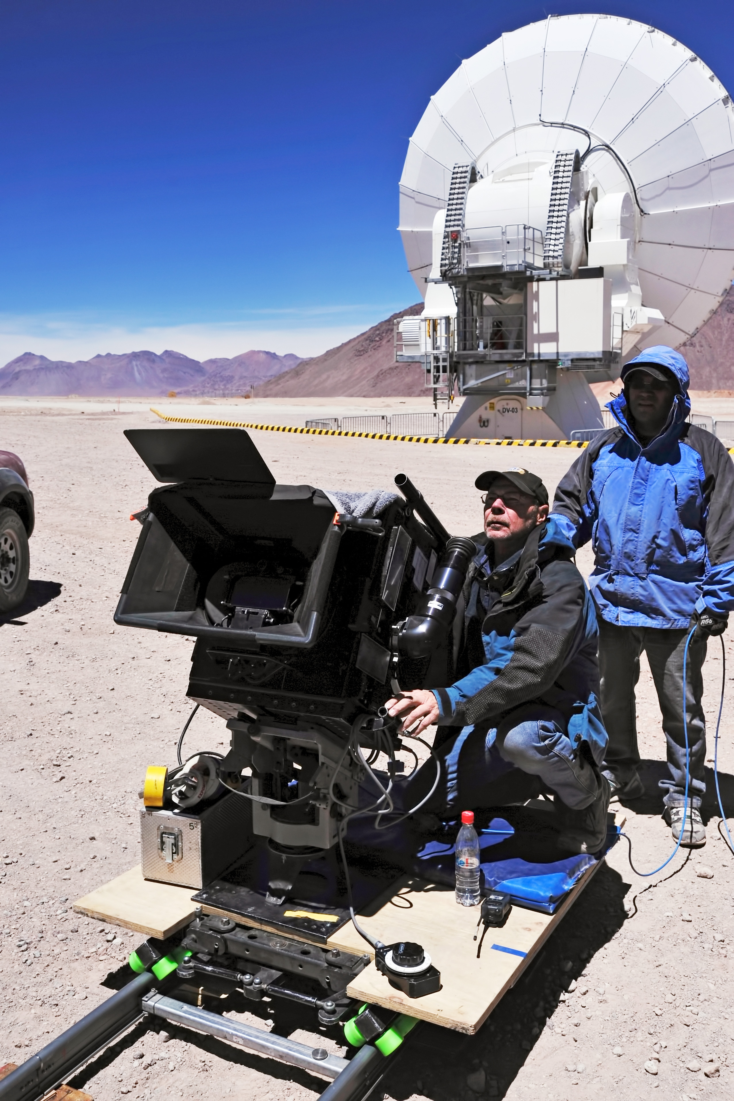 Malcolm Ludgate, Director of Photography for Hidden Universe, filming ALMA in Chile's arid Atacama Desert. Hidden Universe was released in IMAX® theatres and giant-screen cinemas around the globe and produced by the Australian production company December Media in association with Film Victoria, Swinburne University of Technology, MacGillivray Freeman Films and ESO.